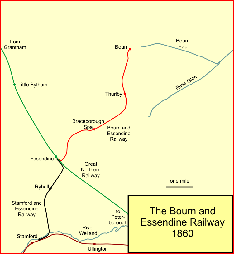 System map of the Bourn and Essendine Railway, Lincolnshire and Rutland, England, in 1860